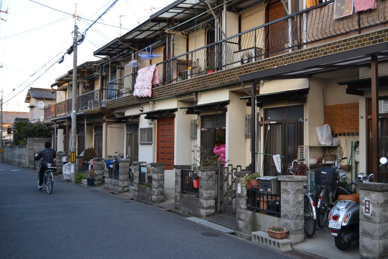 Personal photograph by Lindsay Burnette, for public use